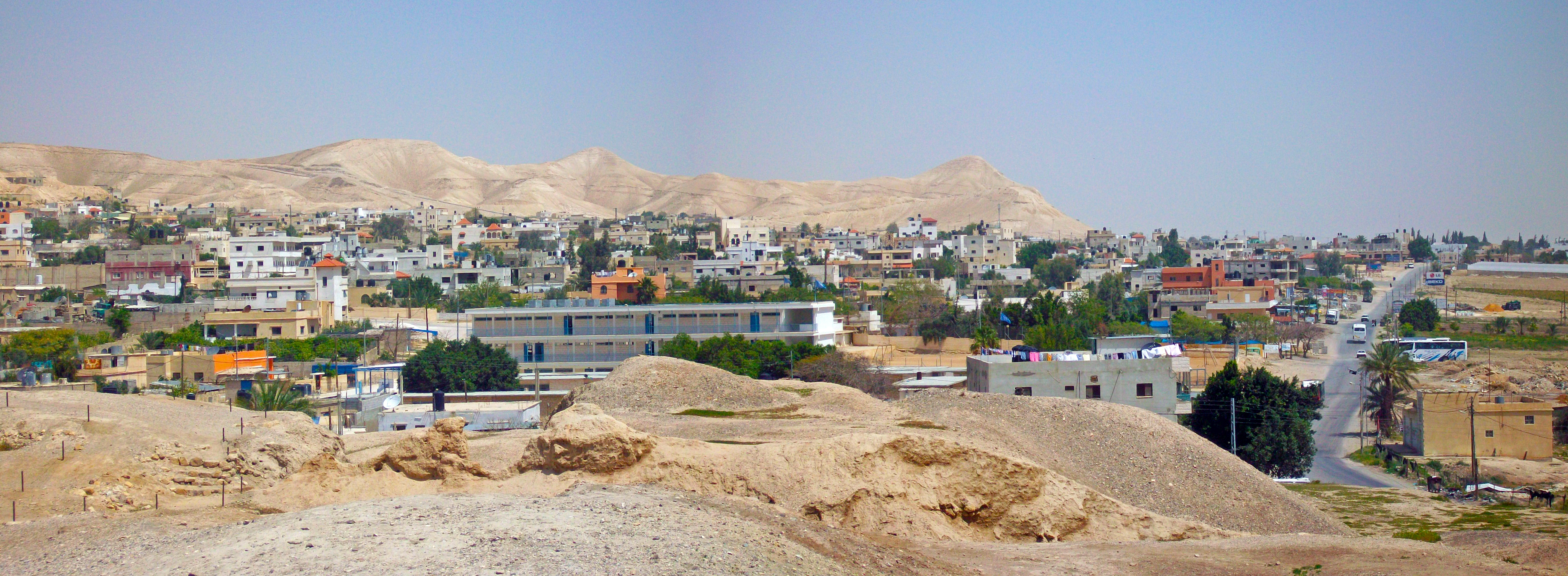 Panorama (stitched from two images by scripts in Photoshop) of Jericho, West Bank, seen from the ruins of the "the walls that came tumbling down ..."